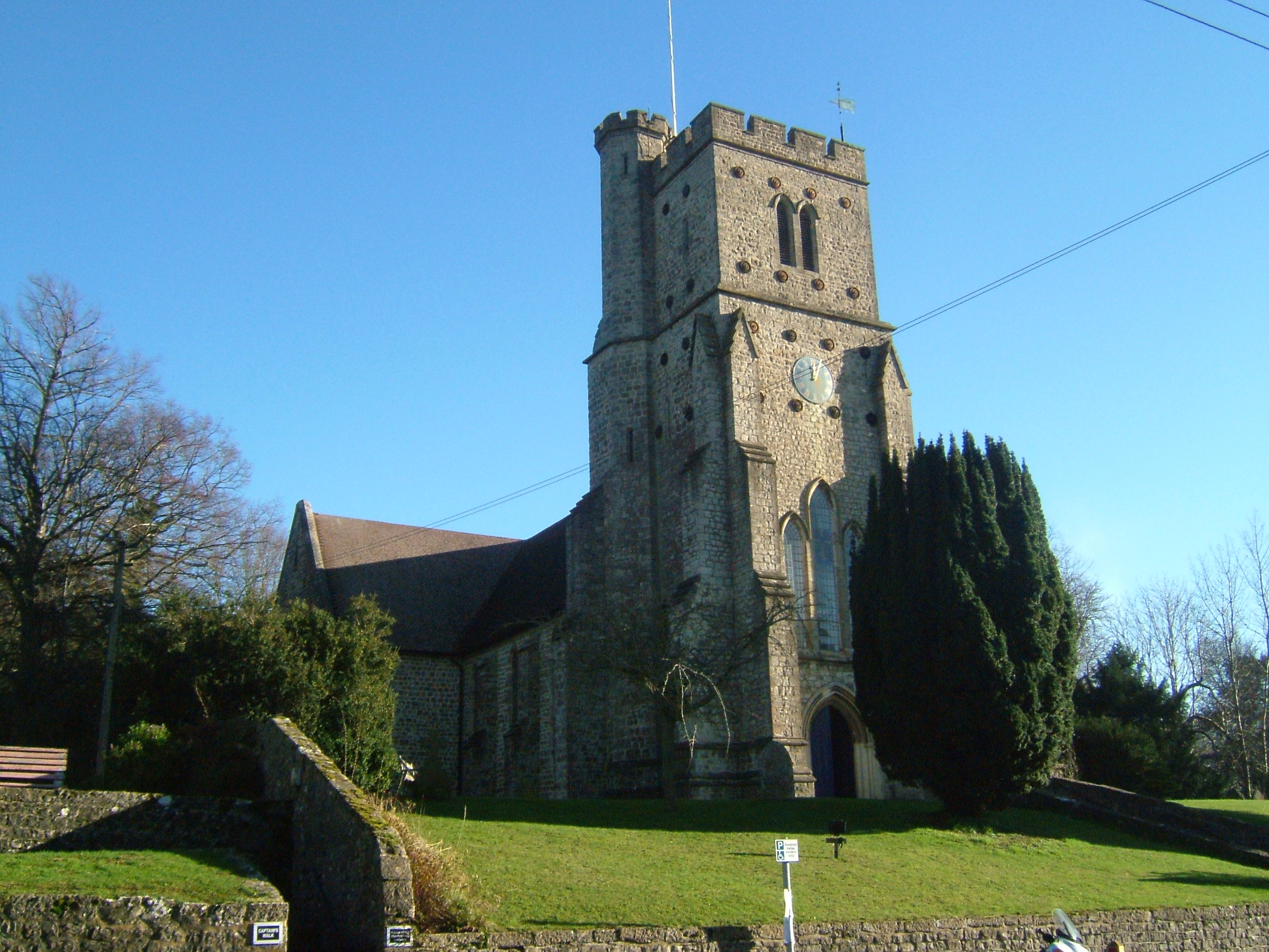 West tower of St Mary's parish church, Platt, Kent, seen from the west